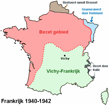 Map of France in 1942 showing free and occupied zones.